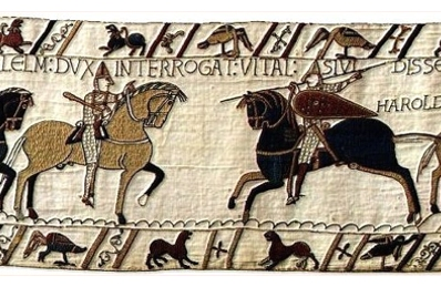 Knight Vital on Bayeux Tapestry